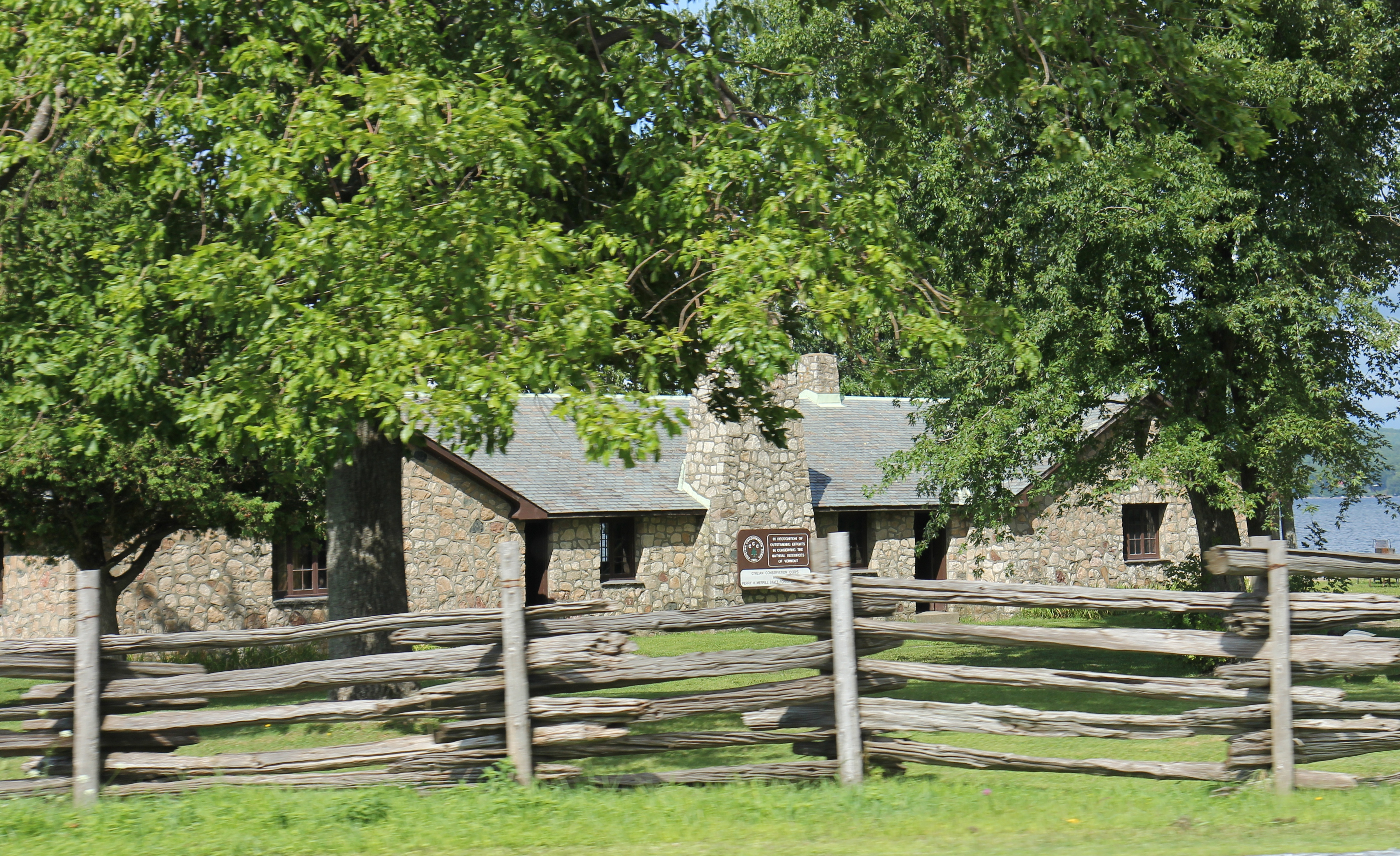 The Merrill CCC building at Sand Bar State Park in Vermont on Lake Champlain. The park is listed on the NRHP as # 02000028